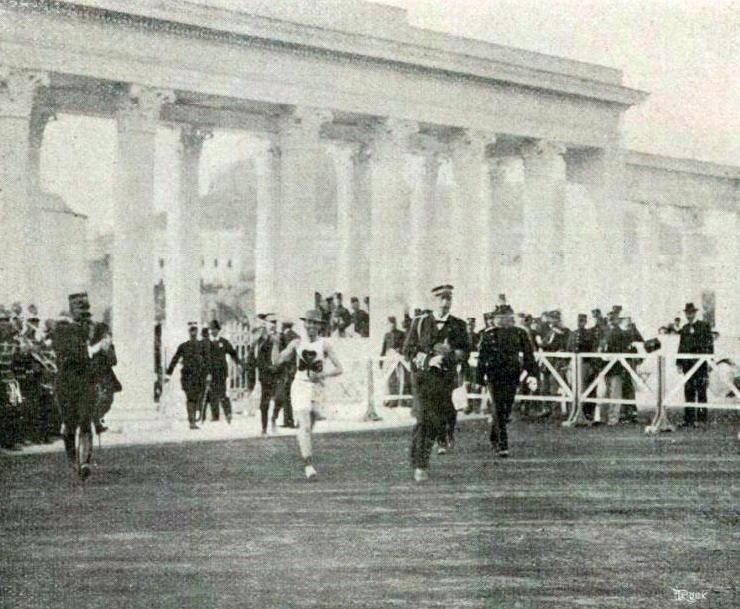 The Olympic games at Athens, 1906 (1906) Author: Sullivan, James Edward, 1862-1914 Subject: Olympic Games (1906 : Athens, Greece) Publisher: New York, American Sports Publishing Company Language: English Call number: 7740541 Digitizing sponsor: Sloan Foundation Book contributor: The Library of Congress Collection: americana [Open Library icon] This book has an editable web page on Open Library.